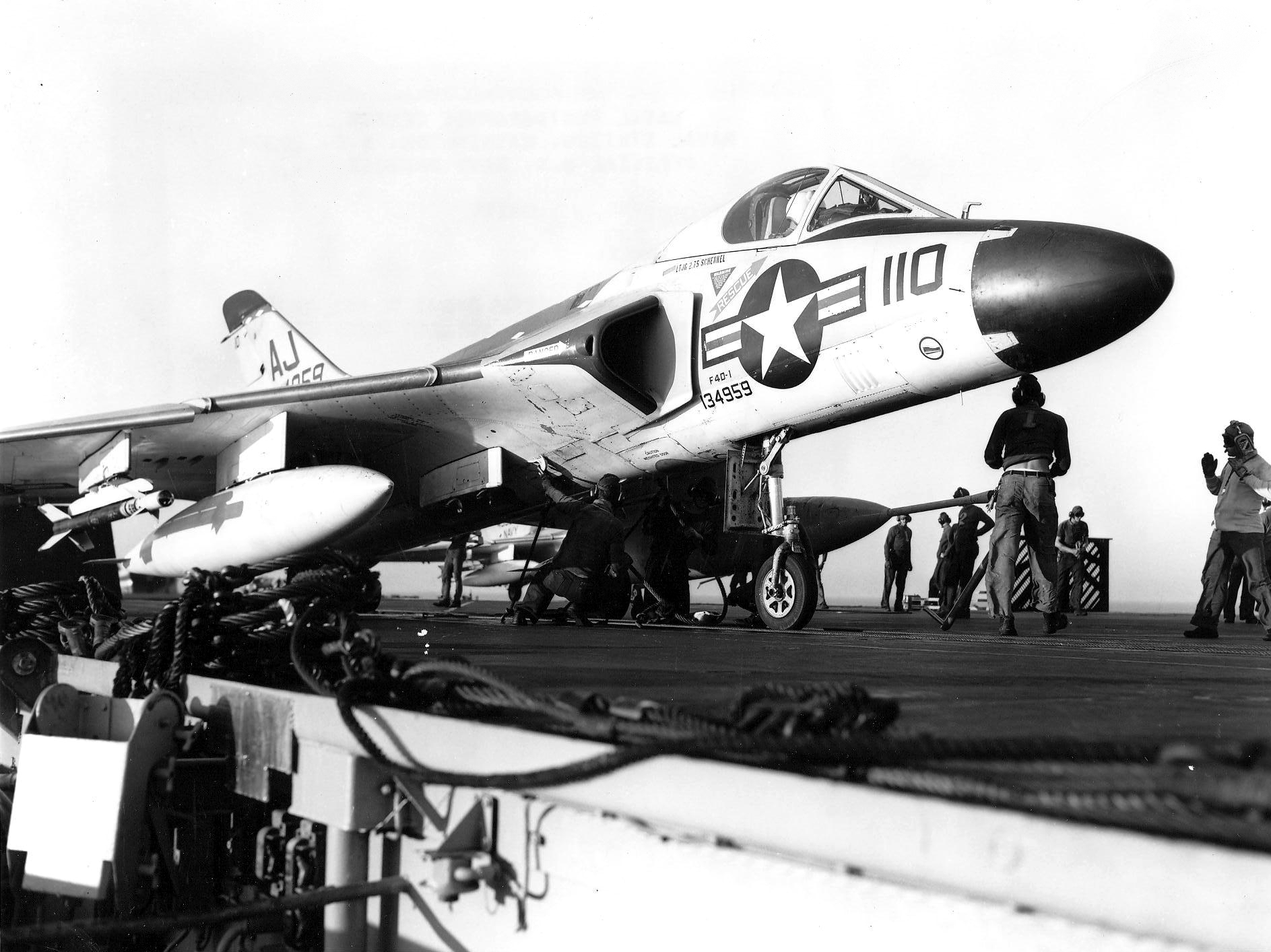 A Douglas F4D-1 Skyray fighter (BuNo 134959) of fighter squadron VF-102 Diamondbacks shortly before launching from the aircraft carrier USS Forrestal (CVA-59) in 1961. VF-102 was assigned to Carrier Air Group Eight (CVG-8) for a deployment to the Mediterranean Sea from 9 February to 25 August 1961. Note the AIM-9 Sidewinder air-to-air missile on the right outboard pylon and the early-style drop-tank refueling probe on the left inboard pylon.